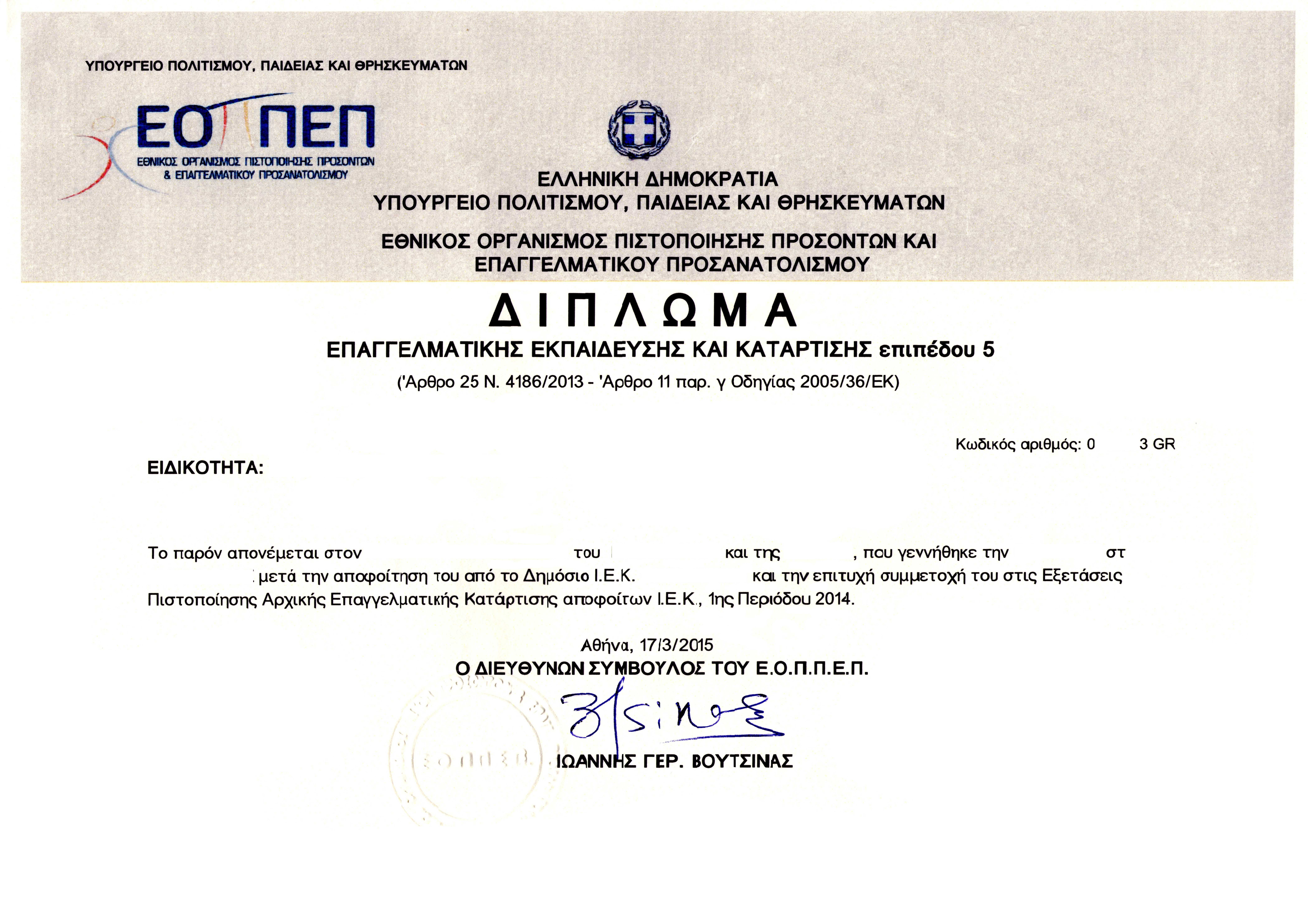 Diploma (IEK) Sample